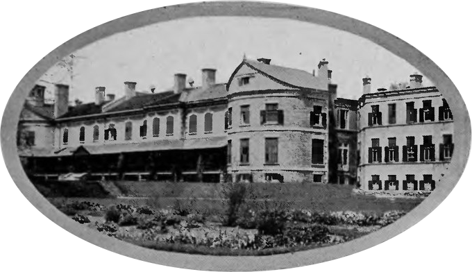 Image from Abbott's Guide to Ottawa and Vicinity